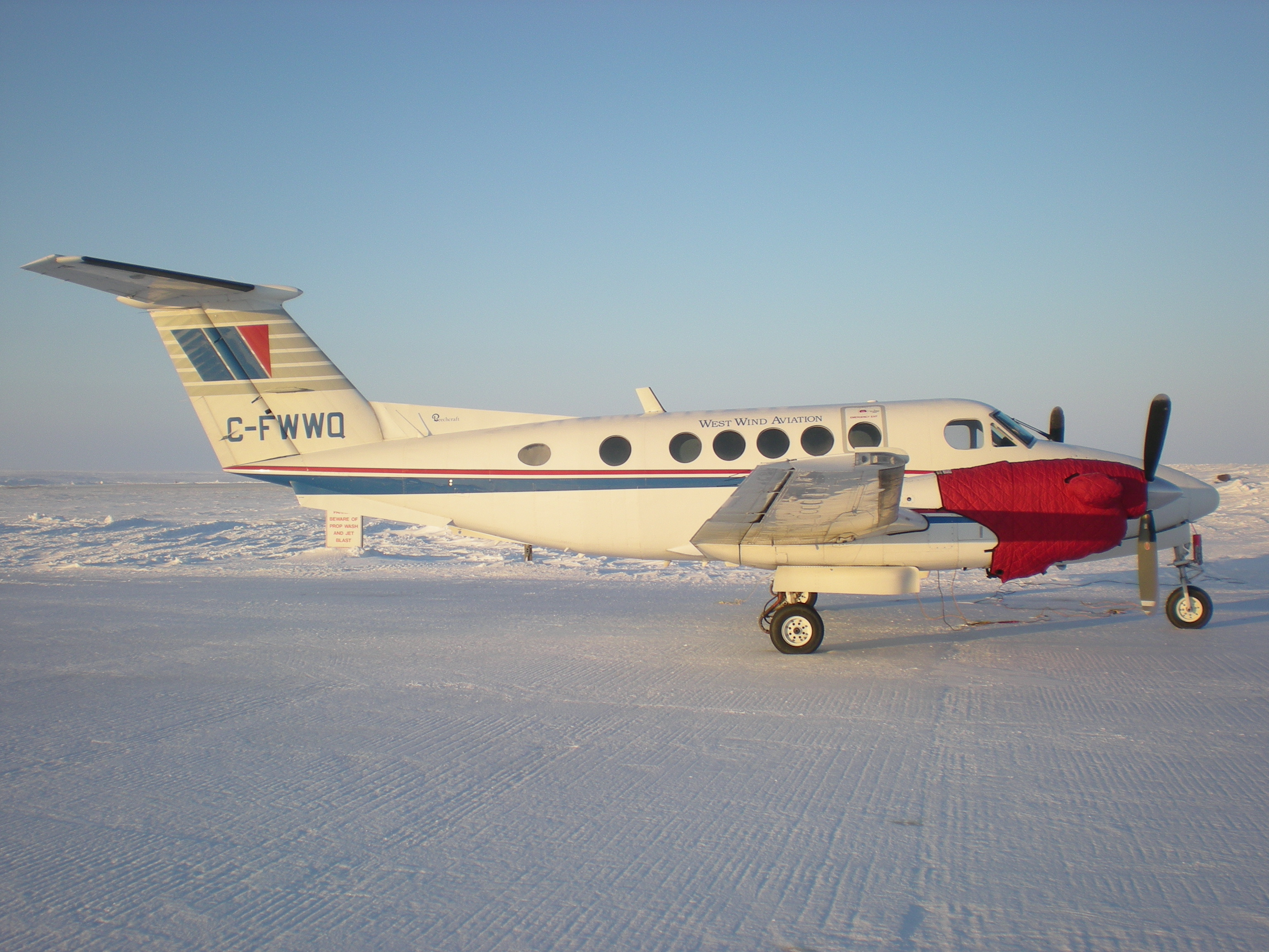 C-FWWQ West Wind Aviation Beech 200